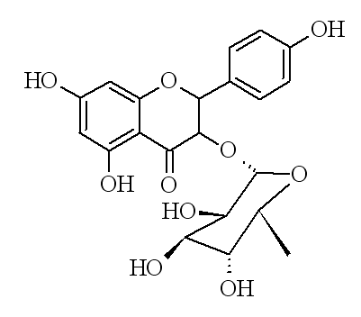 Chemical structure of engeletin